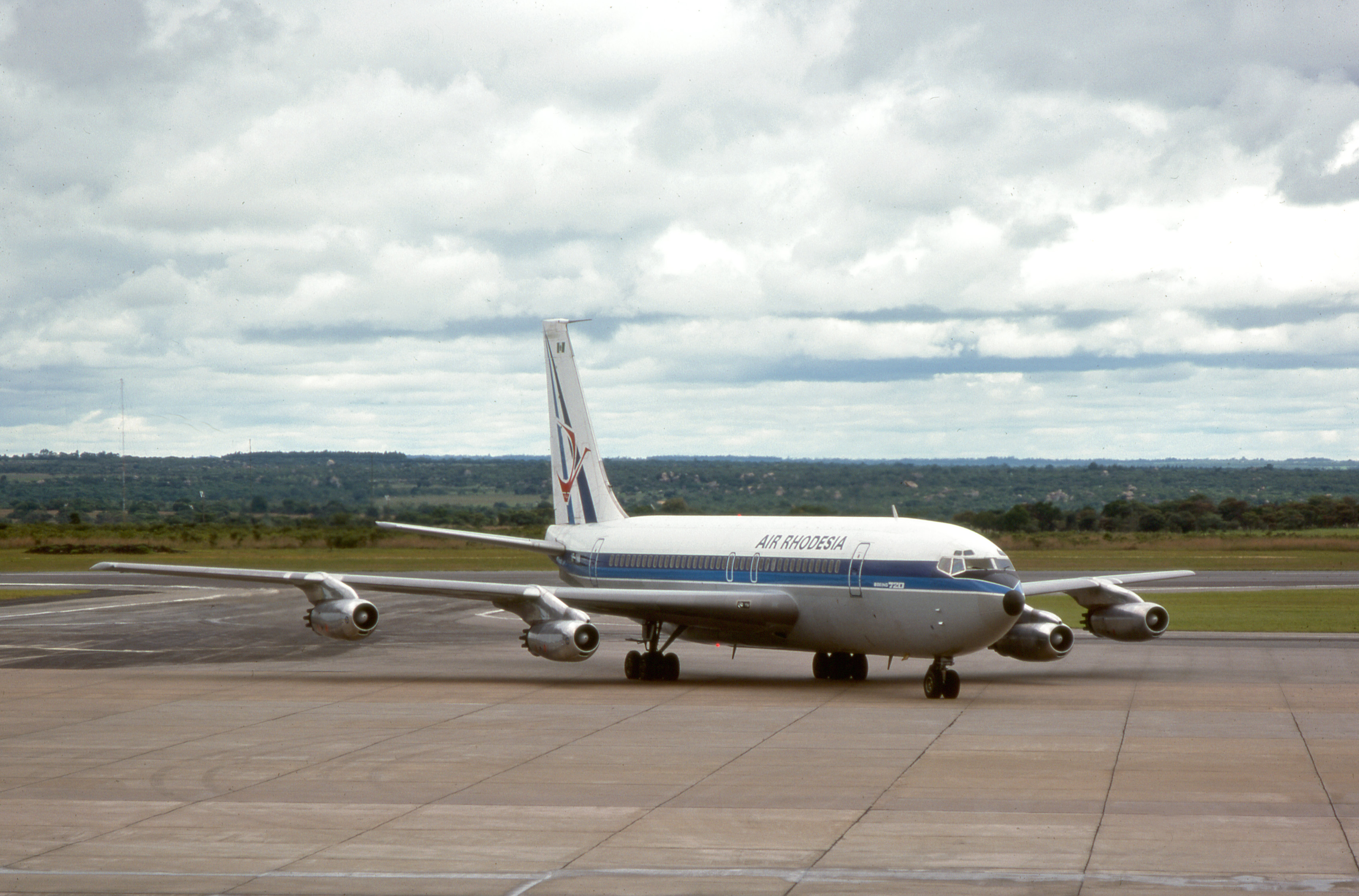 Air Rhodesia Boeing 720 at Salisbury Airport (now Harare International Airport)